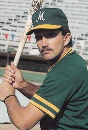 Professional baseball player Jorge Brito